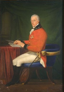 Prince Charles-Joseph de Ligne, by Grassi (1807)